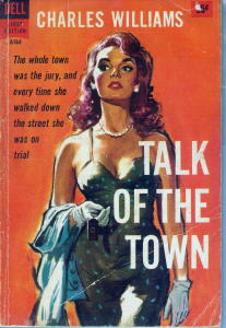 Low-resolution image of cover of the novel Talk of the Town (1958), written by Charles Williams. The original rights holder was the Dell Publishing Co., Inc.